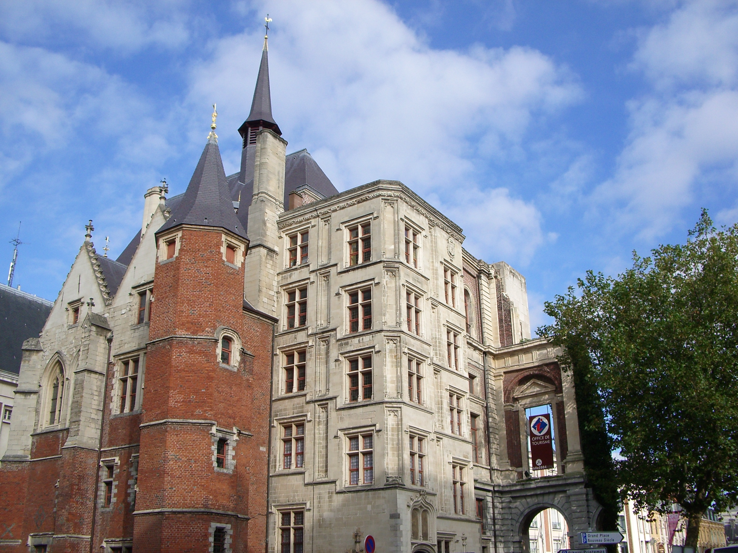 Palais Rihour in Lille, Nord, France